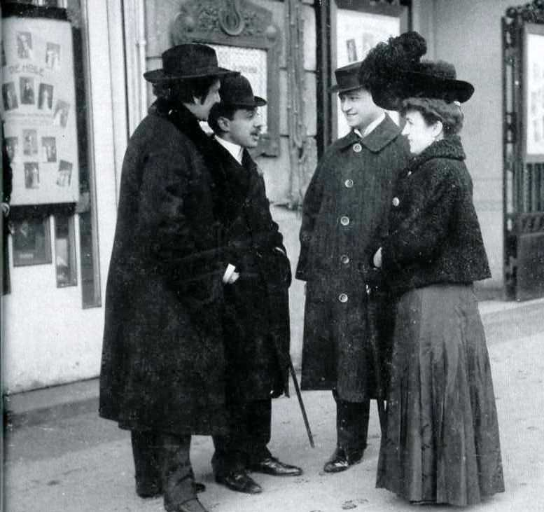 Fritz Gruenbaum, infront of the "Hoelle", Wienzeile 7, c. 1908